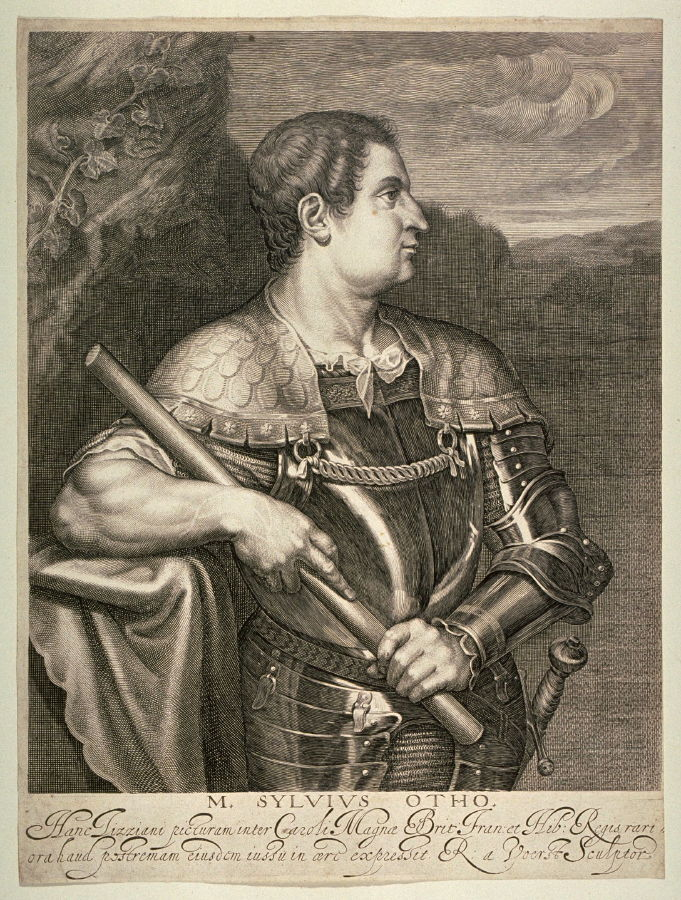 Portrait of M. Silvius Otho